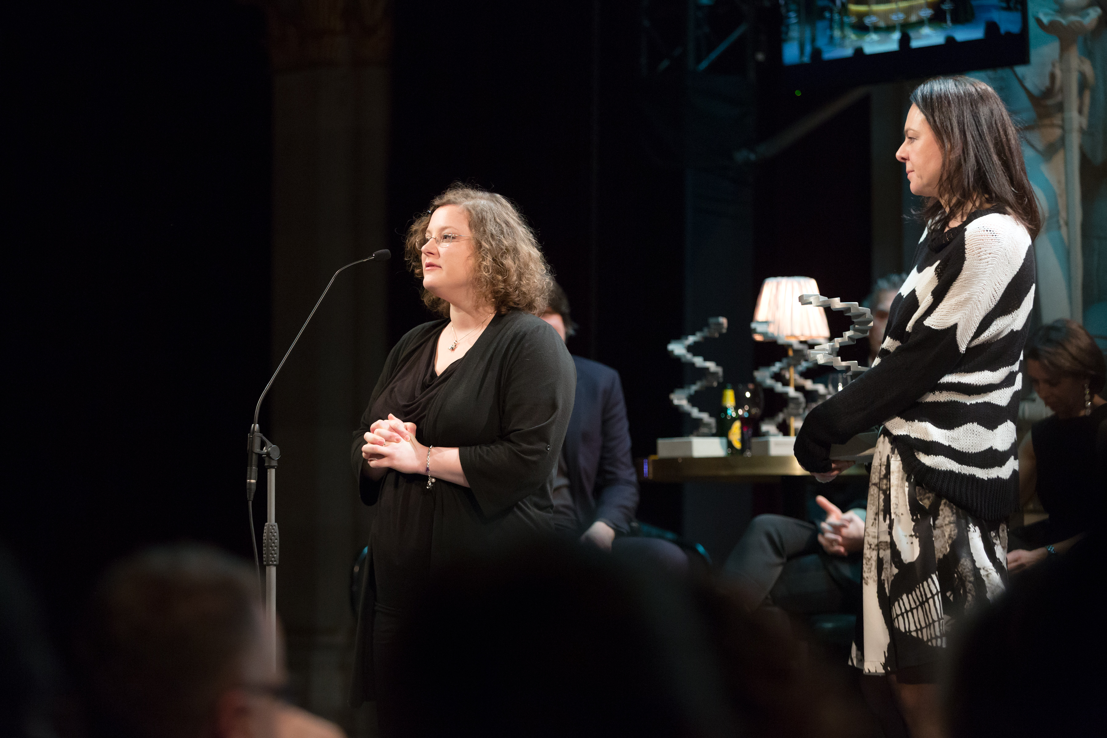 Austrian Film Awards 2017: Monika Willi and Claudia Linzer, winners for best film editing (Thank You for Bombing); Rathaus, Vienna, Austria.